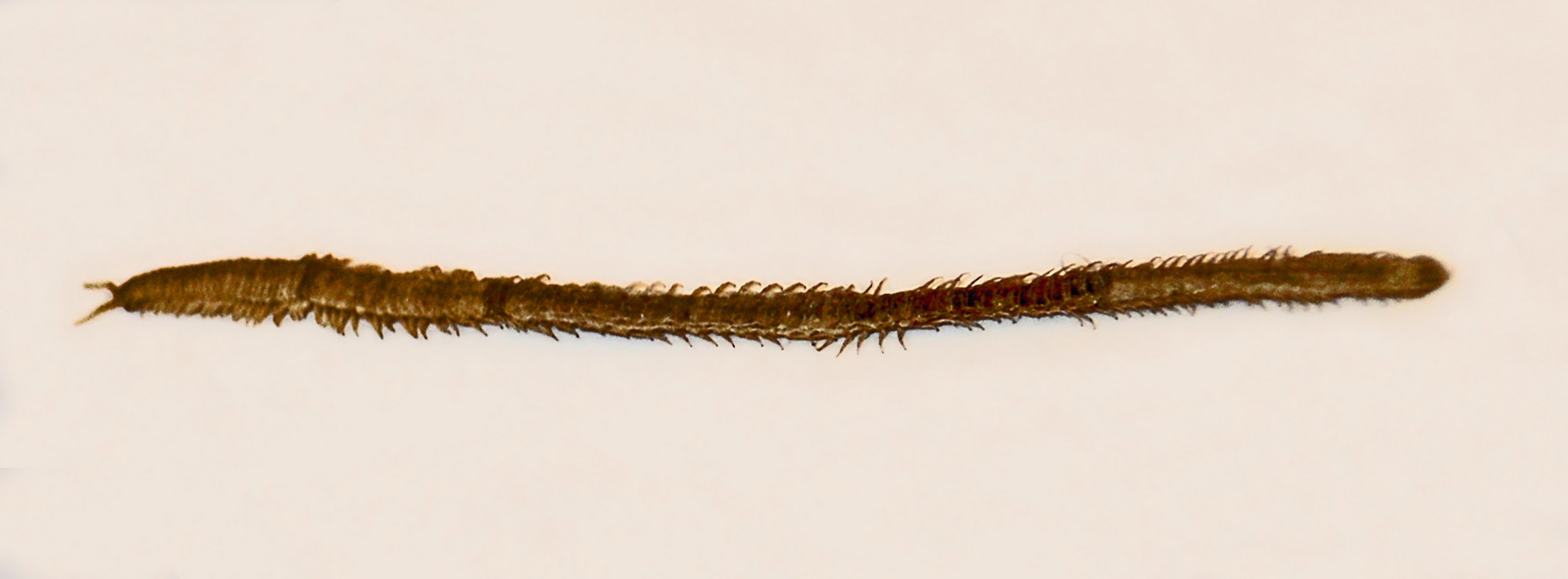 Himantarium gabrielis. Museum specimen